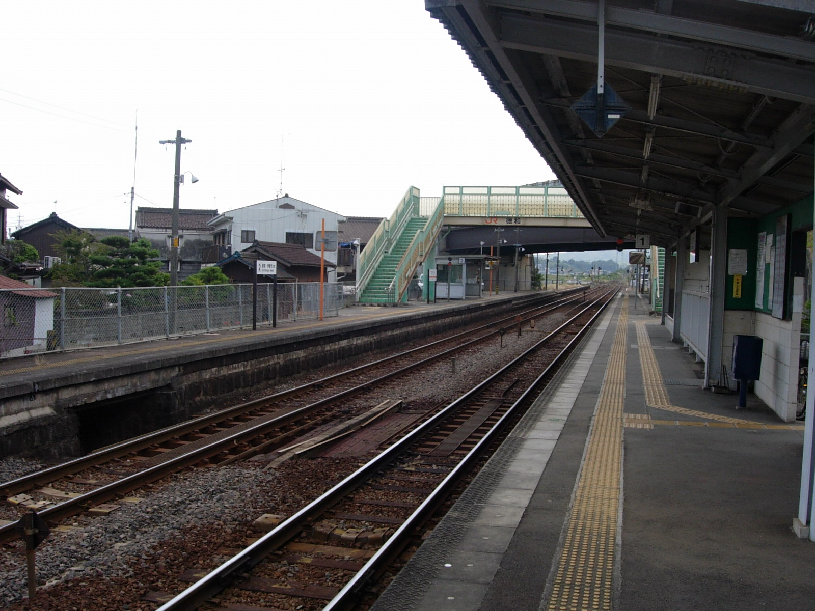 Tokuwa Station, Matsusaka, Mie, Japan